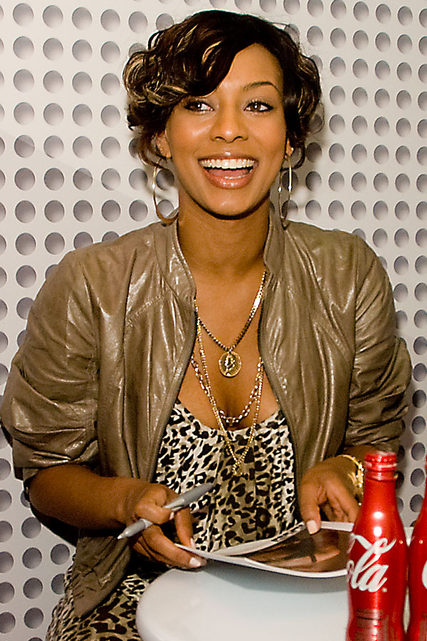 Keri Hilson at Chicago's WGCI Radio Coca Cola Lounge